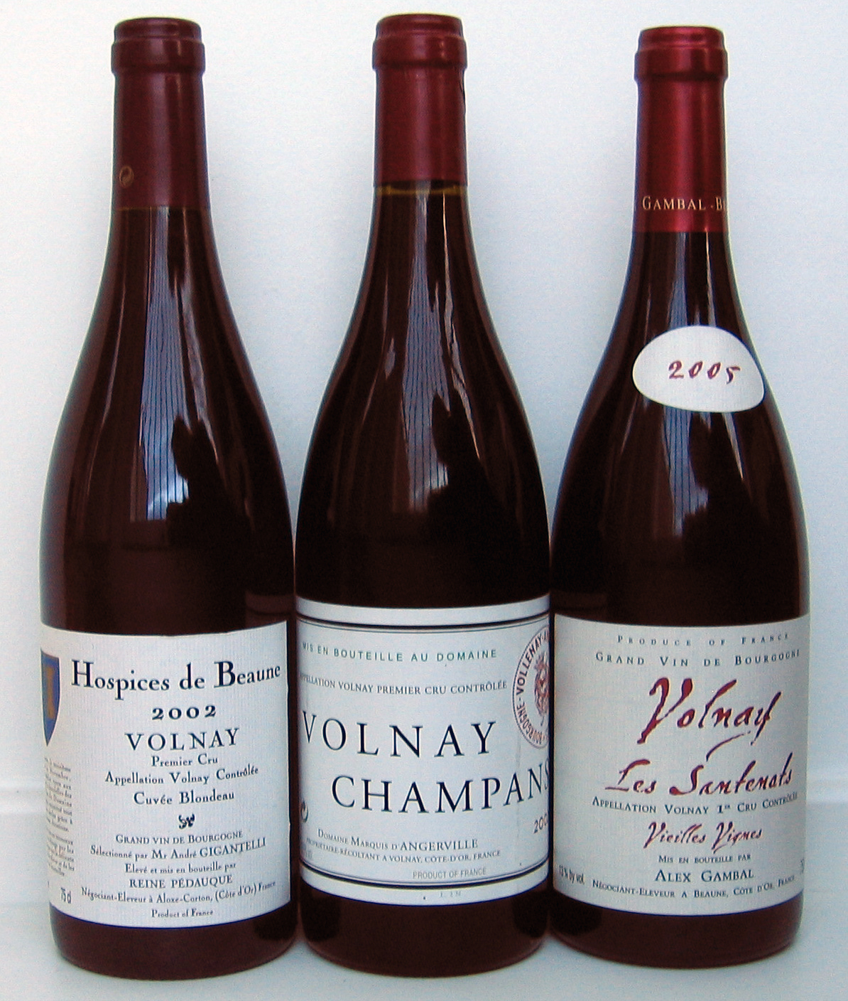 Three bottles of Premier Cru wines from Volnay in Burgundy. One bears the name of a cuvée instead of a specific vineyard, one is from a named vineyard, and one is from Volnay-Santenots, which means that it actually is from the next village, Meursault.